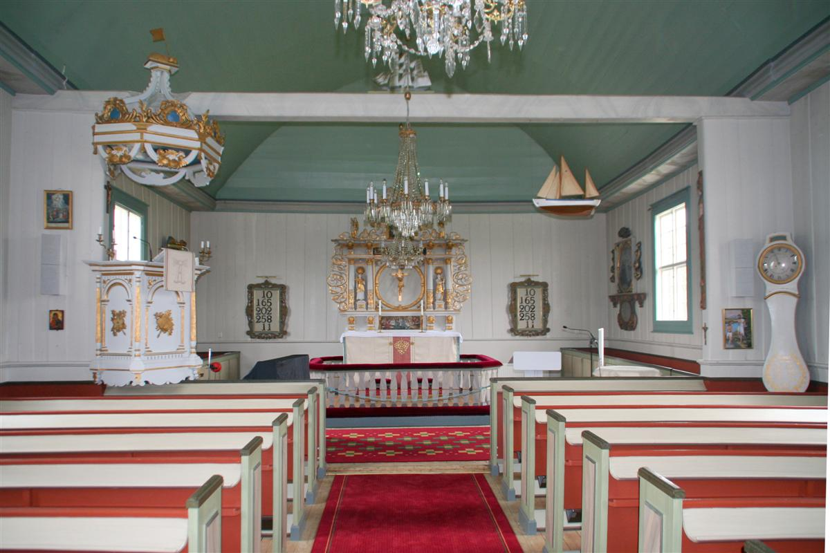 Käringön Church, interior